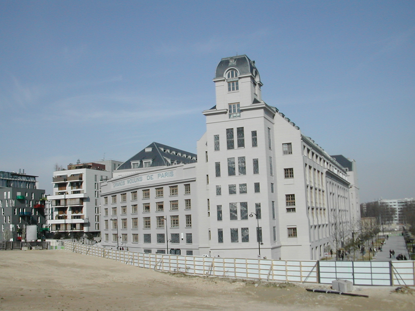 The "Grands Moulins" in Paris 13, host of the University Paris Diderot